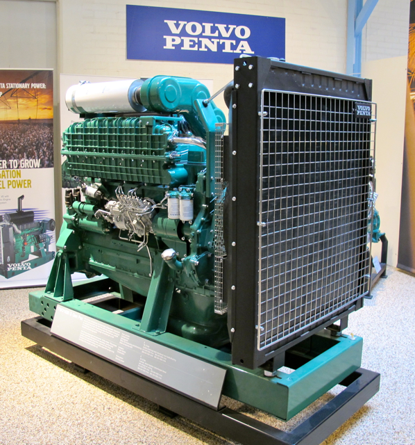 Volvo Penta Engine: TWD1620 G Gen Pac Turbocharged and intercooled 16-liter Engine from Volvo Penta. 4-stroke, direct incention turbochared diesel with charge-air cooling. 6 Cylinders, 12,12 liter Swept volume